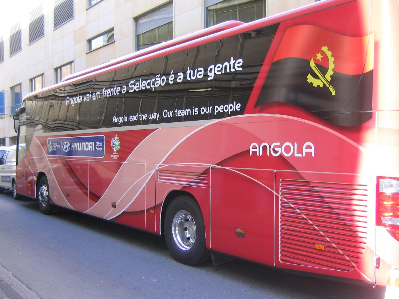 The Setra S400-series bus of the Angola national soccer team in Cologne, Germany.